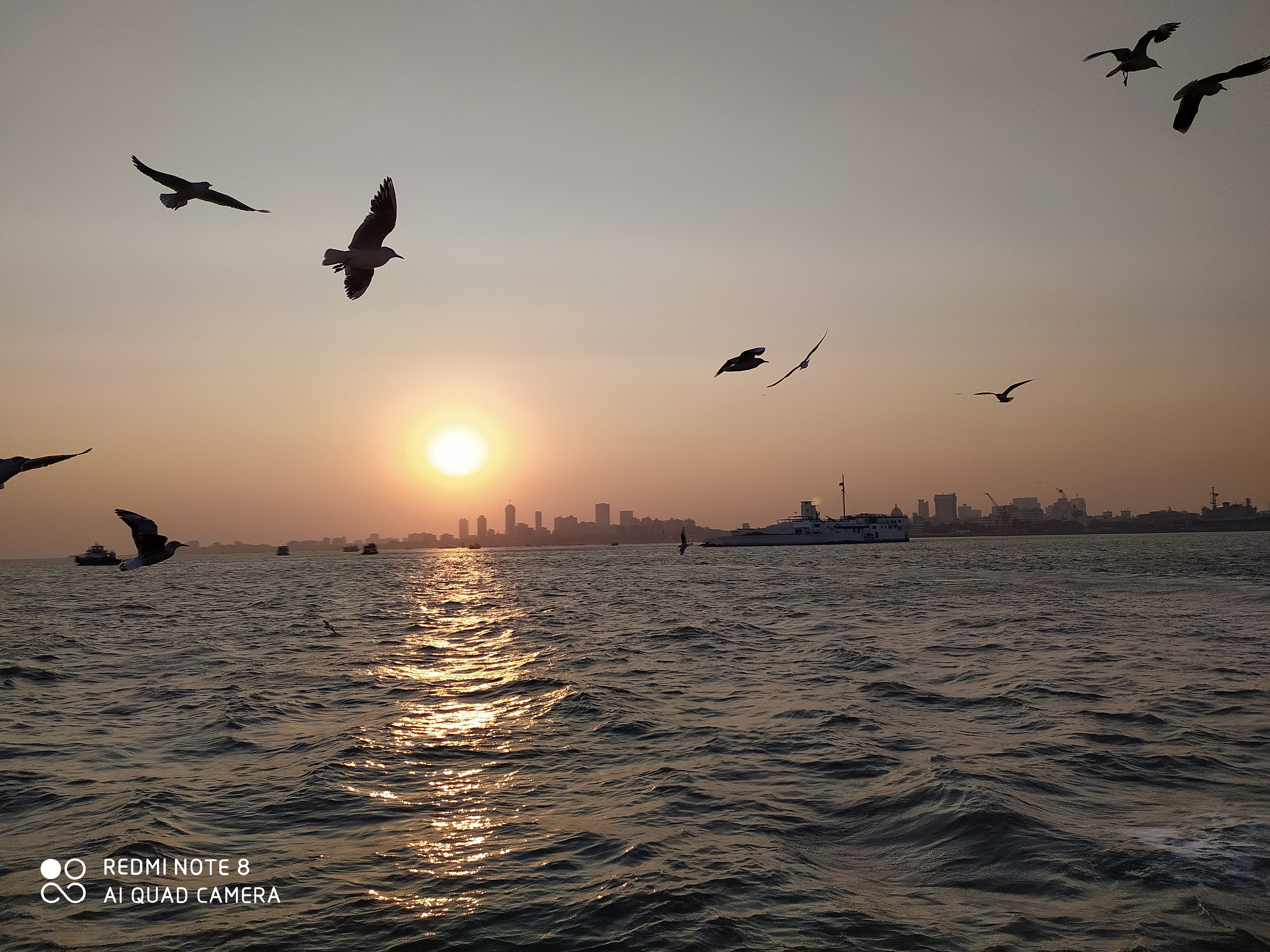 Birds flying for food on Sea platform